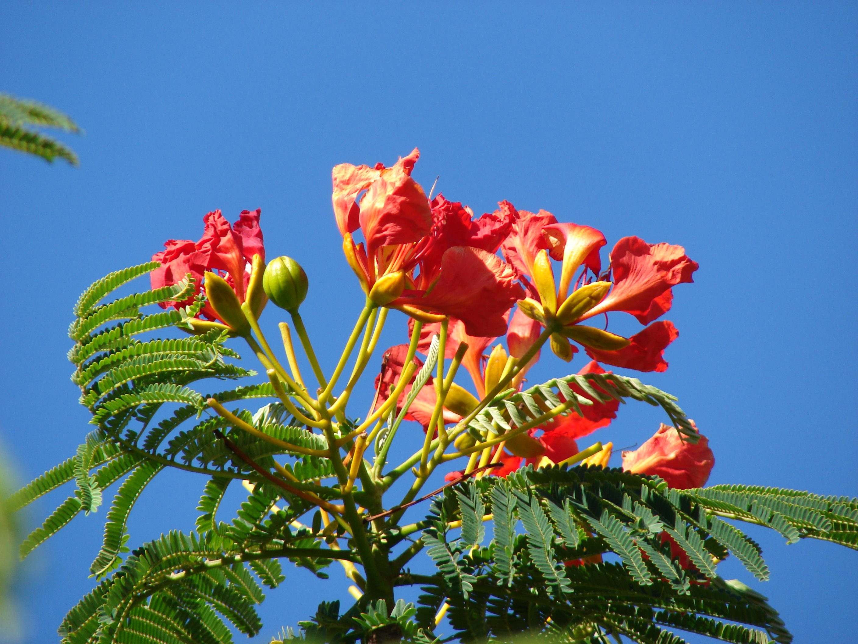 Delonix regia (flowers). Location: Maui, Post office Makawao